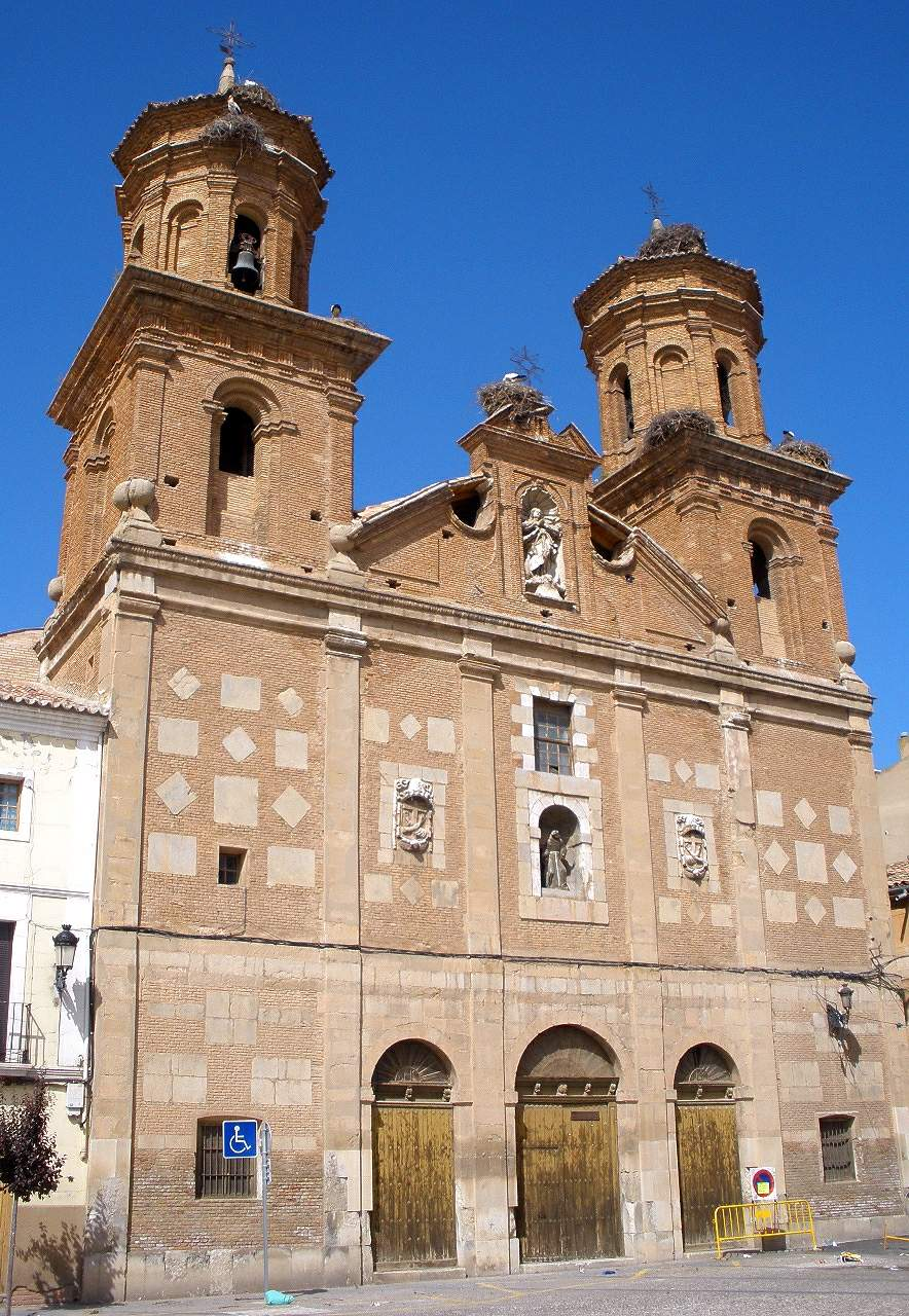 Convento de San Francisco, Alfaro